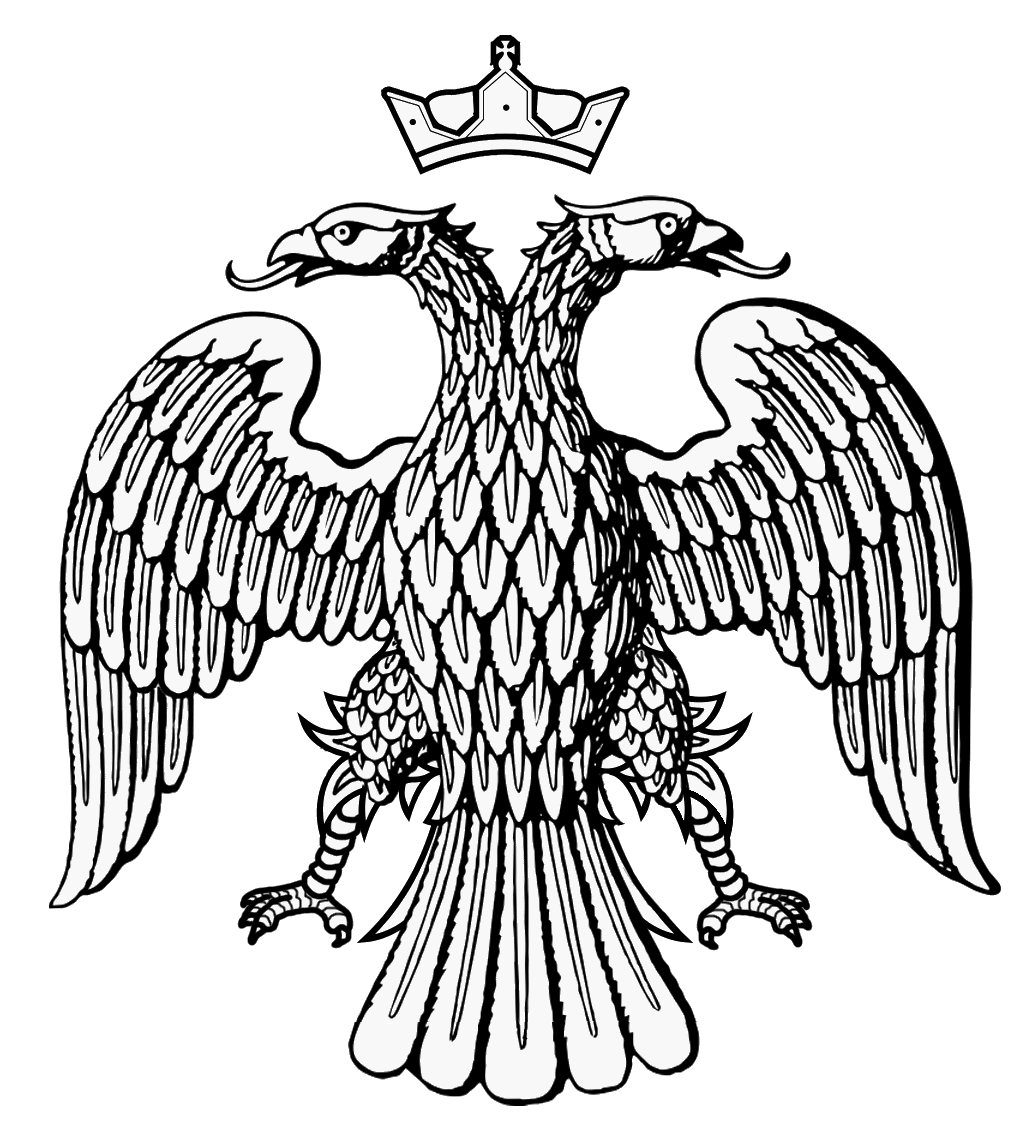 Double-headed eagle of the Byzantine Empire, since byzantine-flag.gif